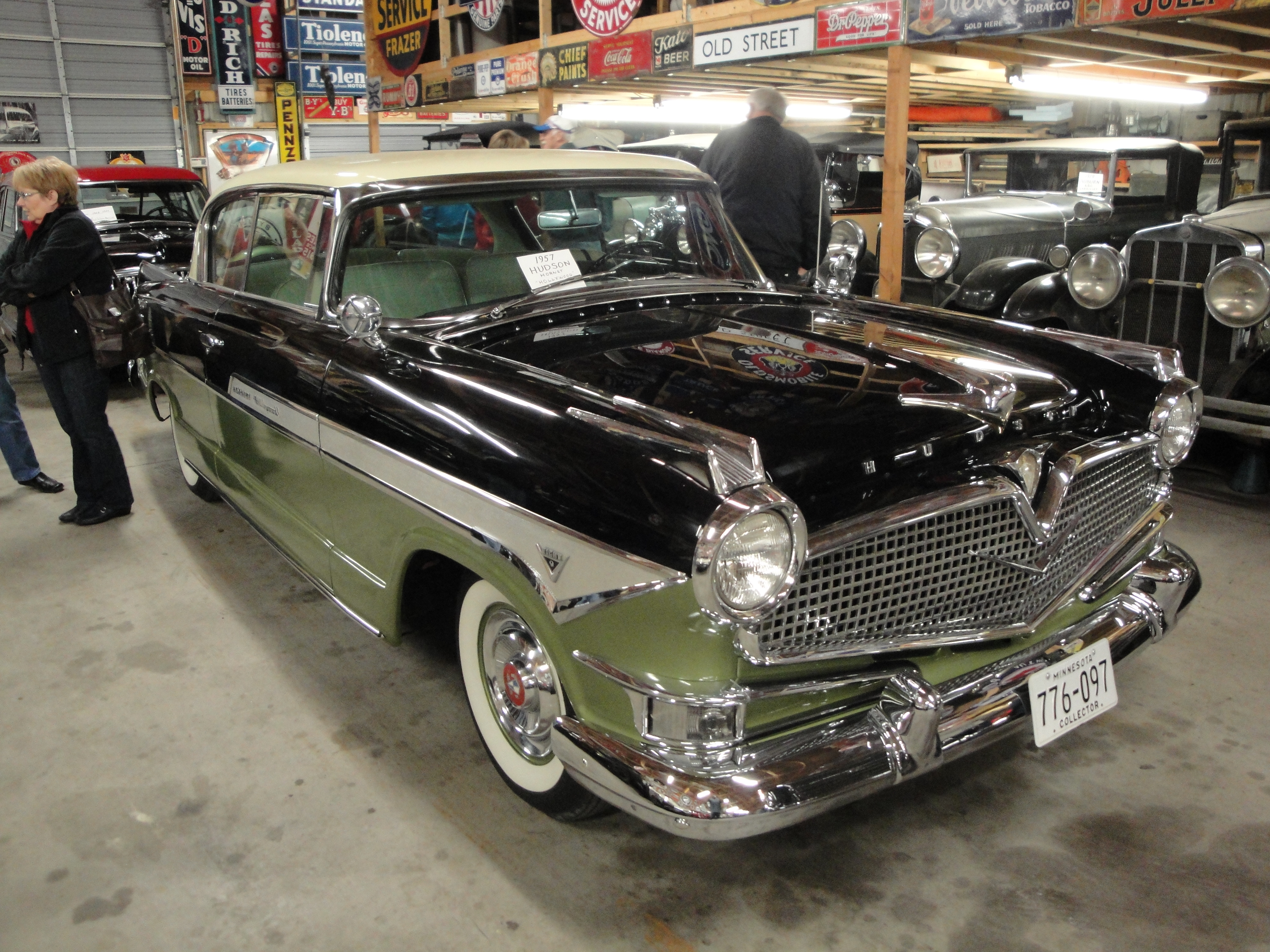 Willmar Car Club Car Buffs' Breakfast November 2011